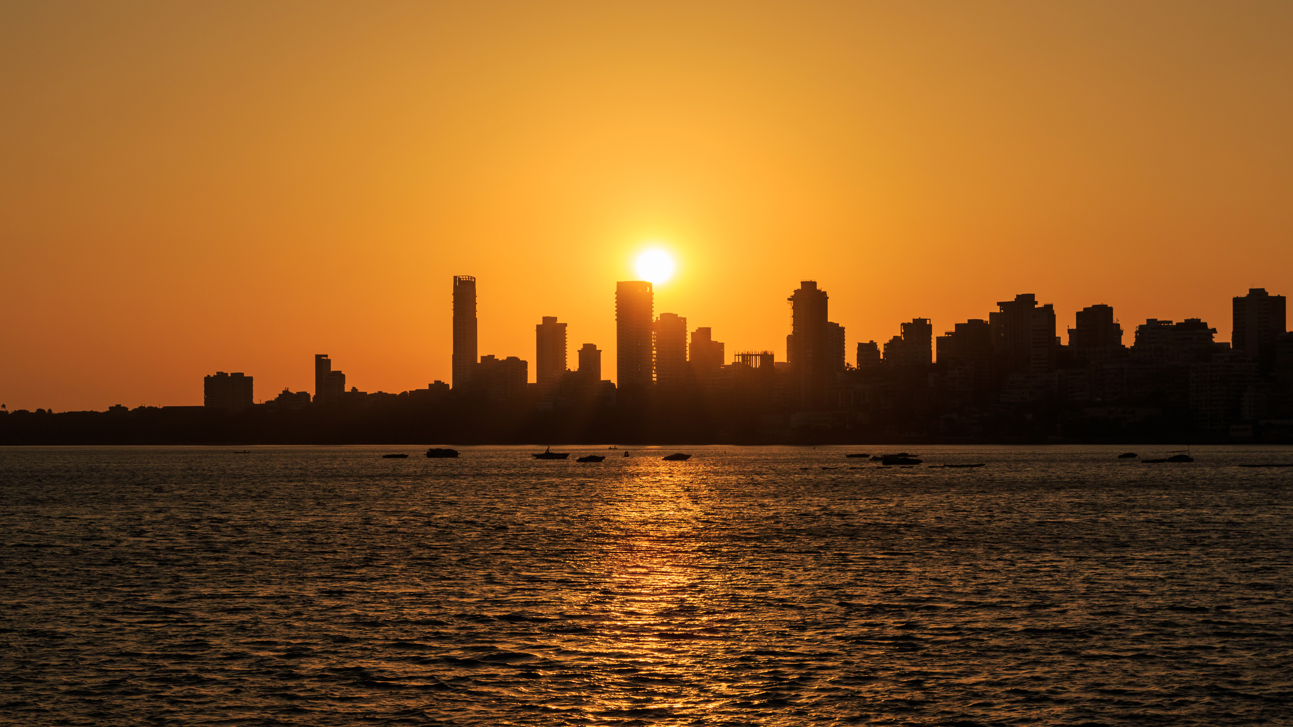 Sunset as seen from Marine Drive in Mumbai, India